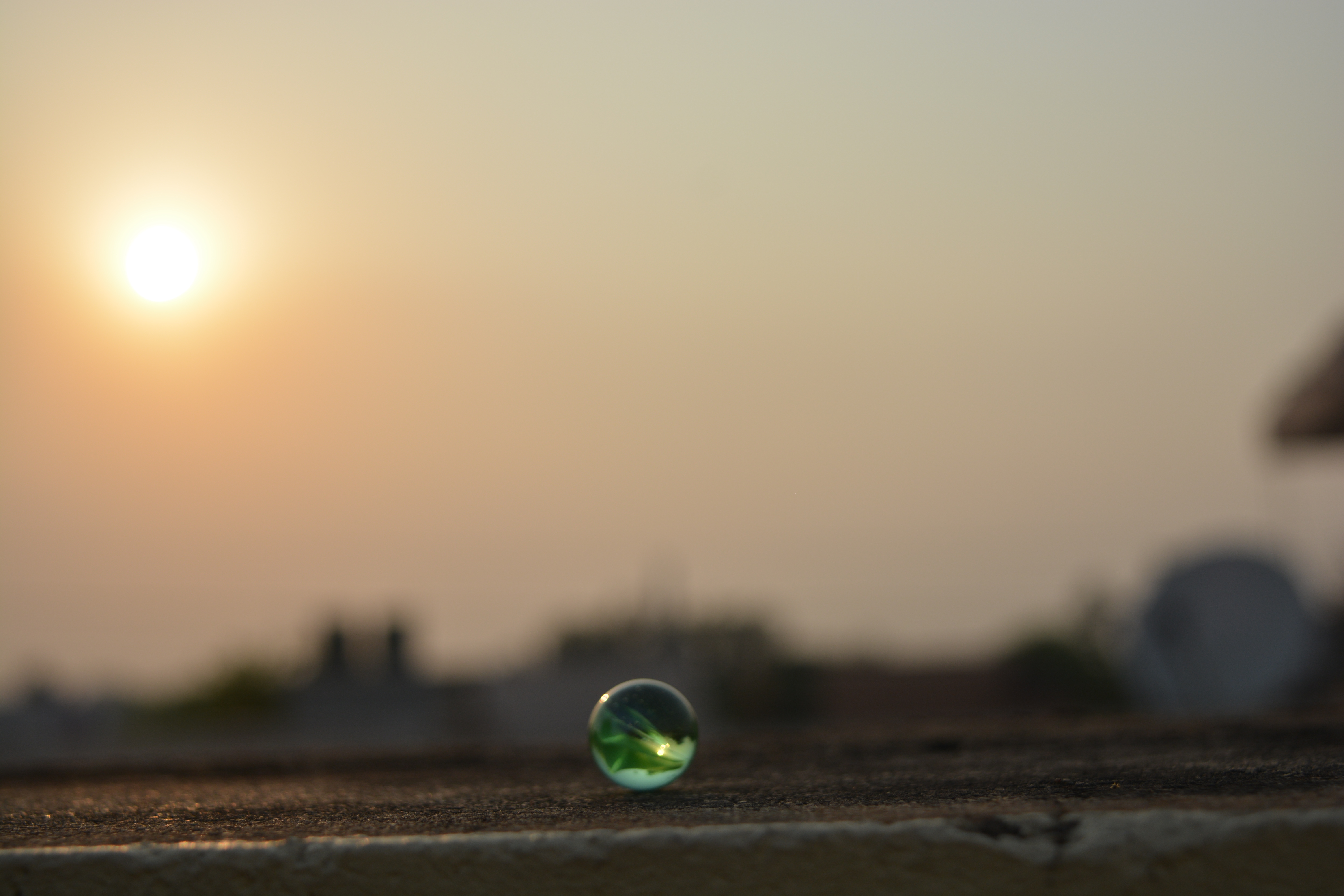 I took this image in Raipur from my terrace.